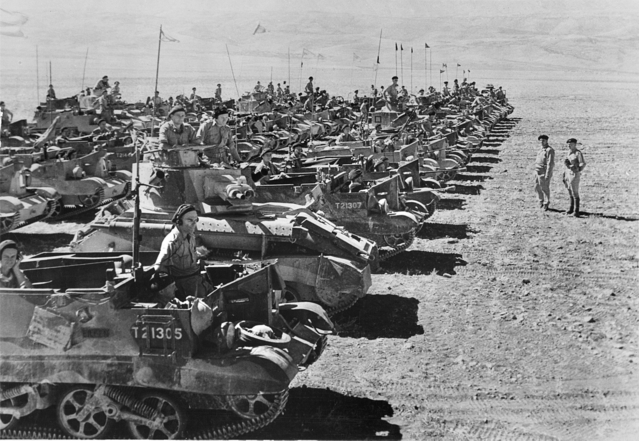 AWM Caption: Syria. 1941-07-28. The tanks and armoured carriers of an Australian Cavalry Regiment line up for inspection following successful action against the enemy in the area.